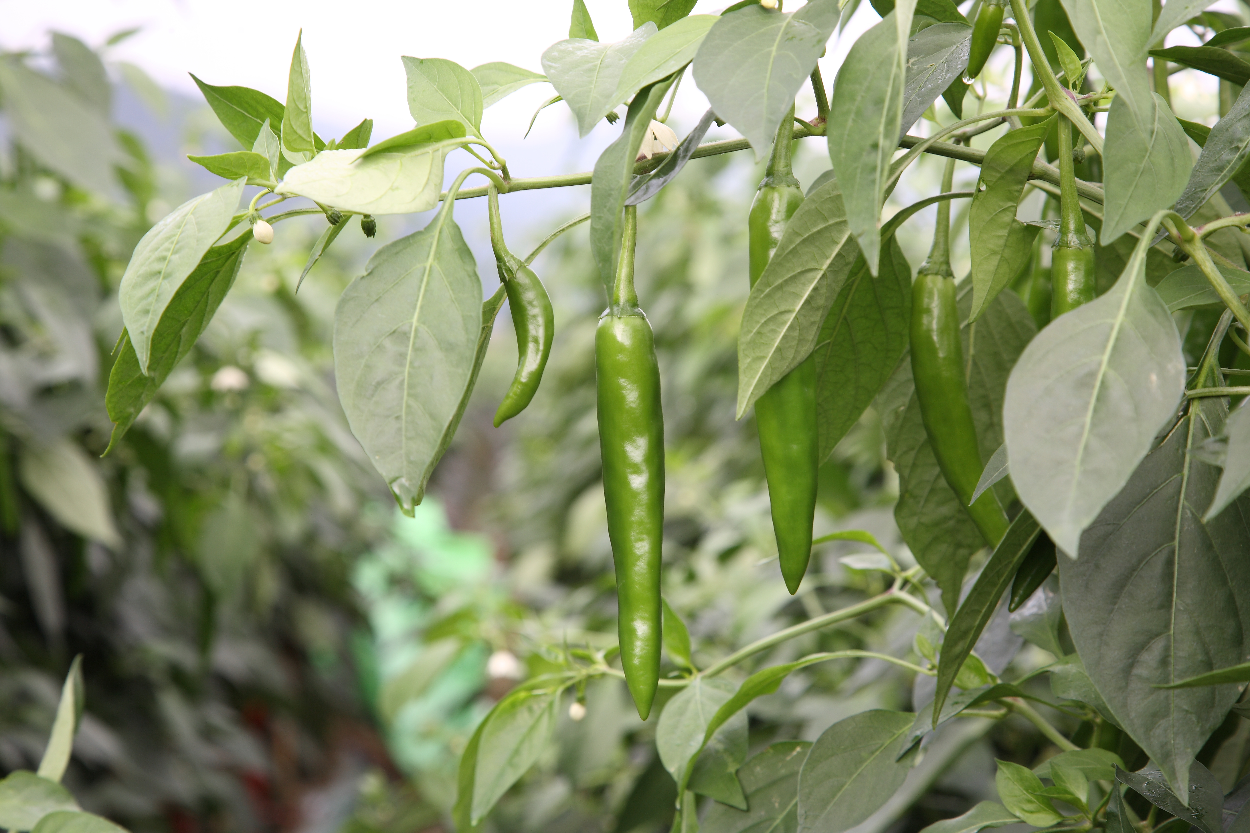 Korean chilli